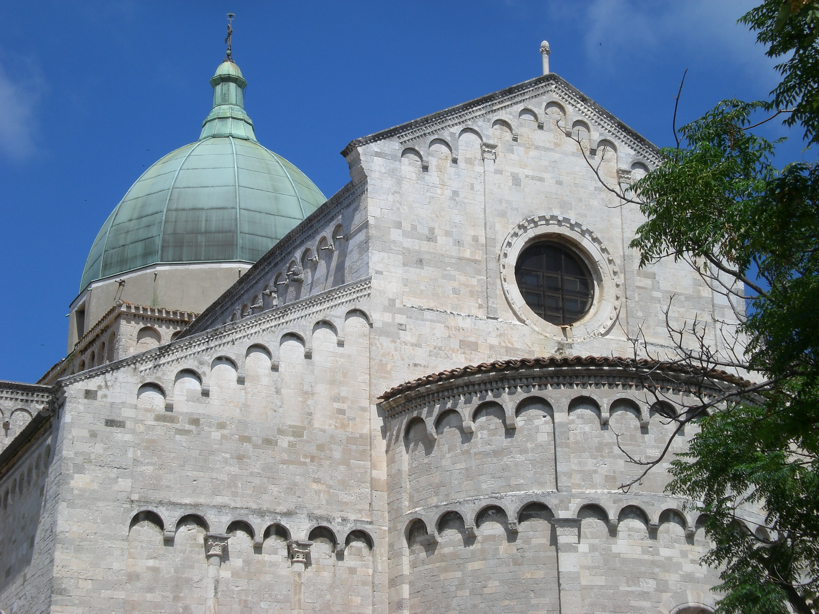 Ancona, Saint Cyriacus Cathedral, X-XII century